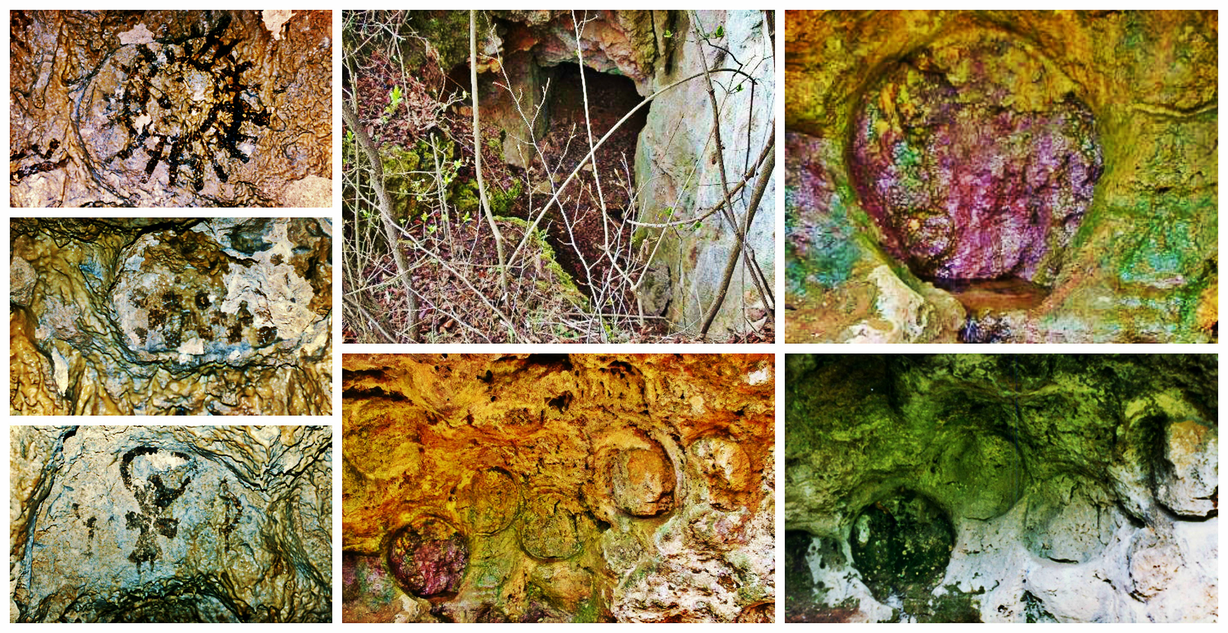 Bailovo Sanctuary Stone Suns